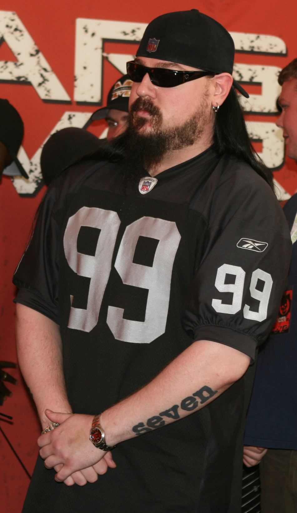 Mick Thomson of Slipknot unmasked.